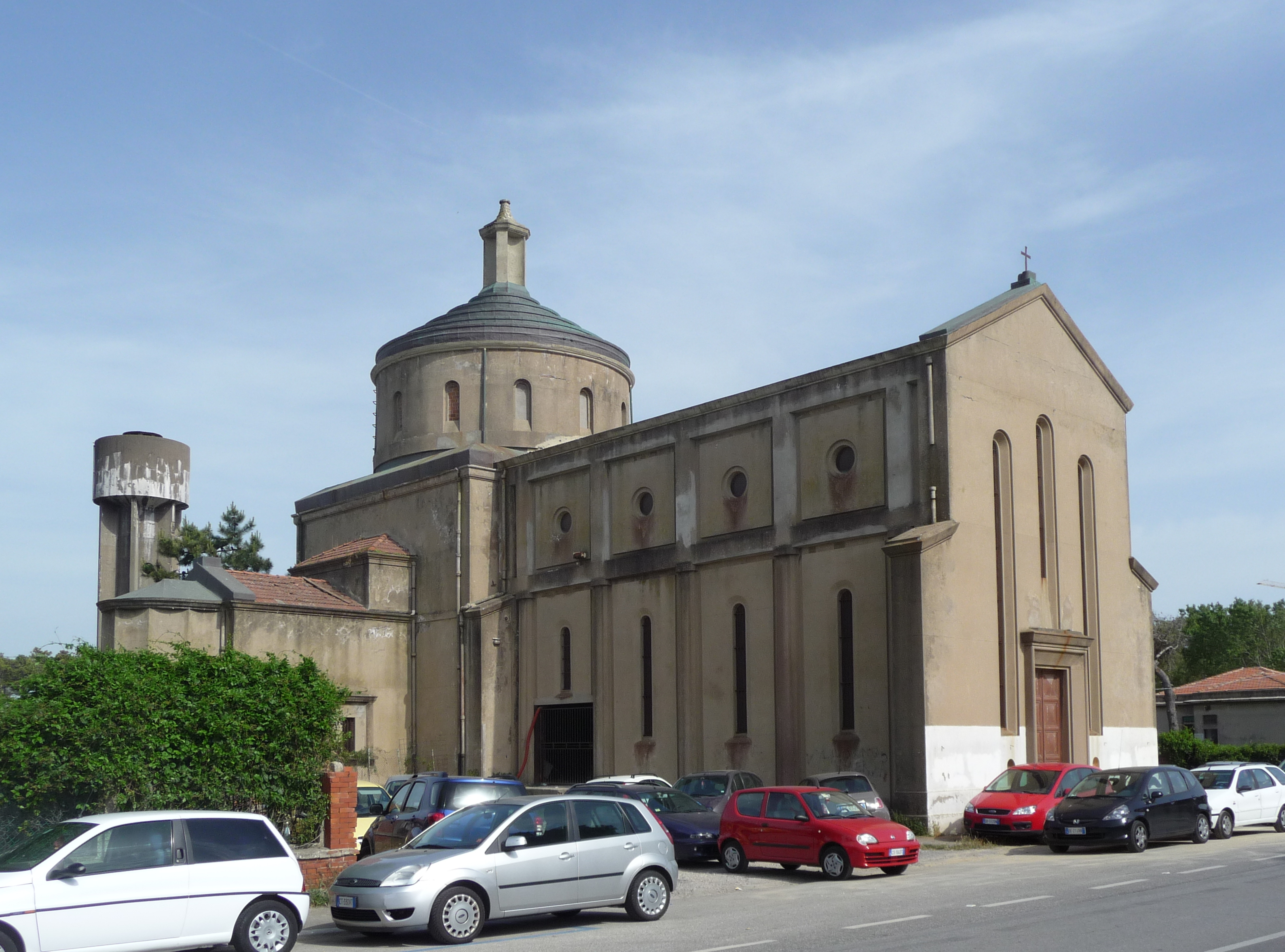 Church "Santa Rosa", Calambrone, Pisa, Italy